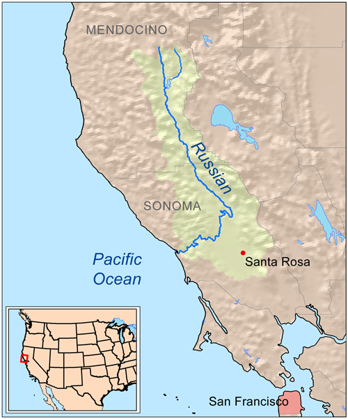 Map showing the Russian River drainage basin — Northern California.